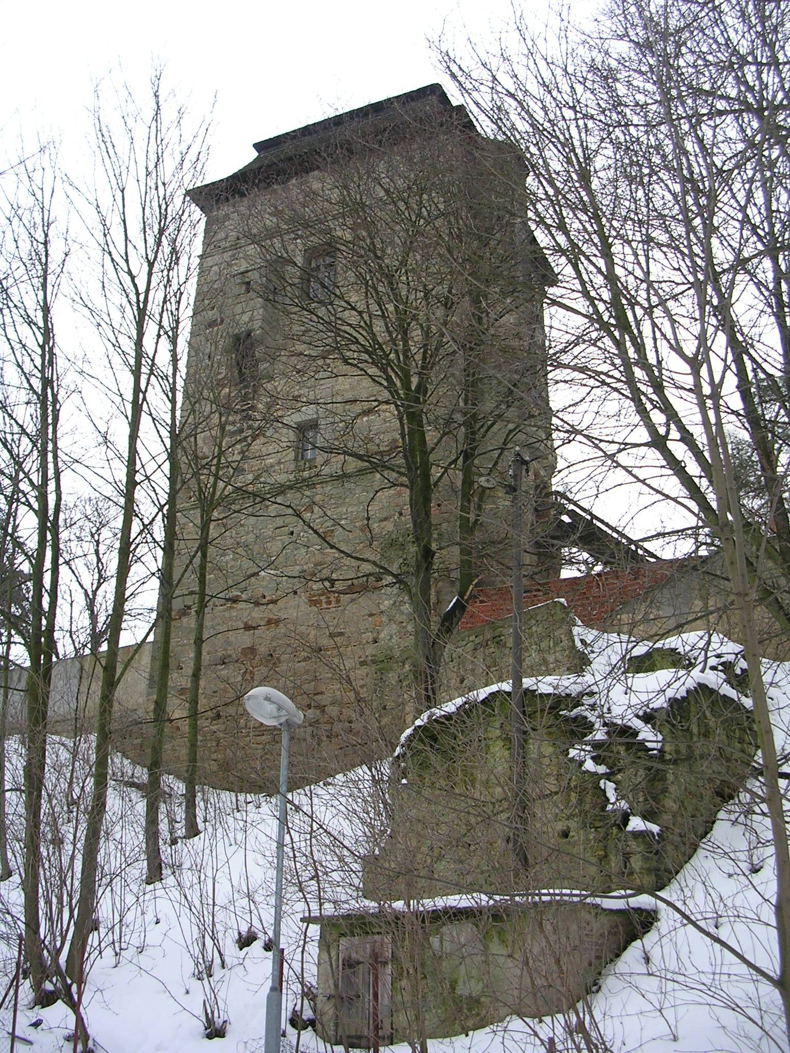 Tuchoraz, Central Bohemian Region, the Czech Republic.